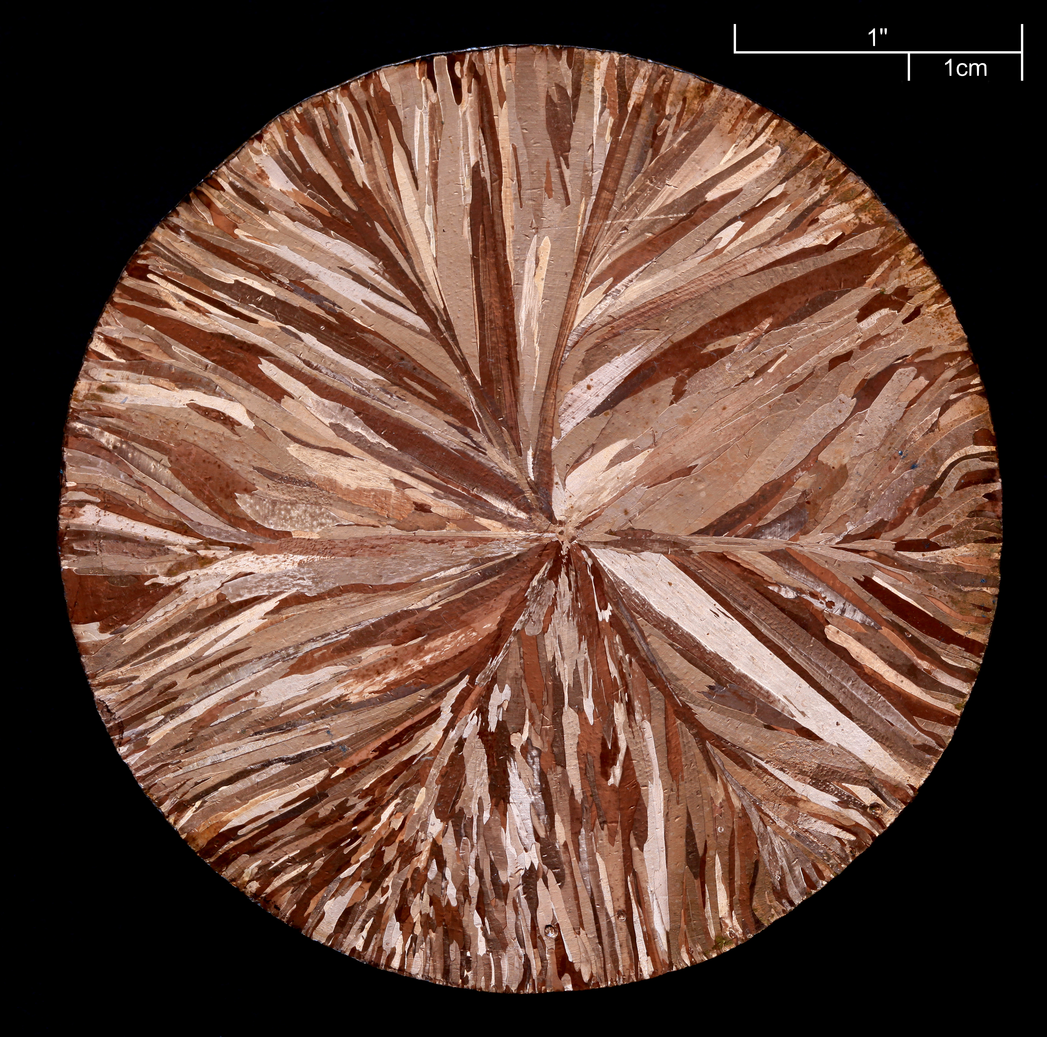 Continuous casting copper disc (99.95% pure), macro etched, ∅ ≈83 mm.